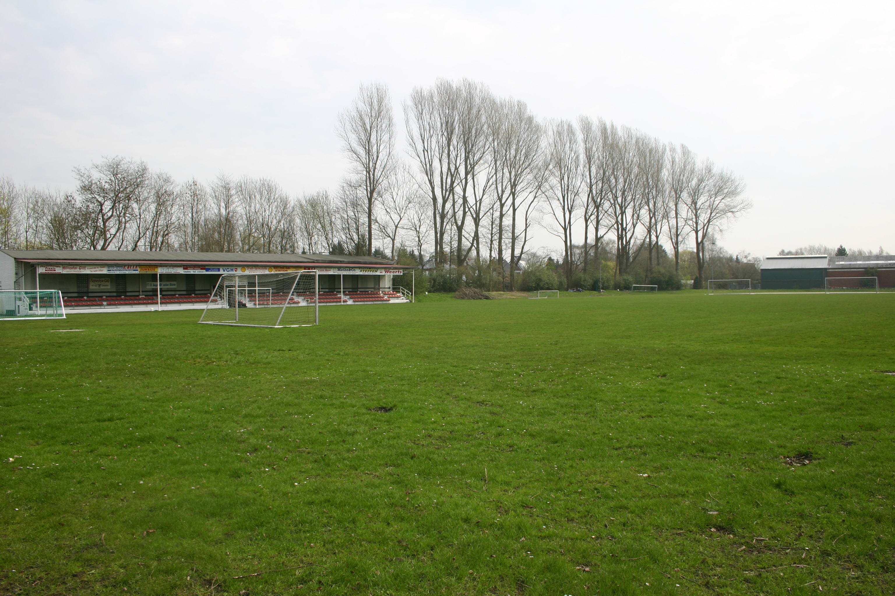 FT-Platz in Emden, East Frisia, Germany, former ground of football club BSV Kickers Emden (3rd German League), today used (again) by football club FT (19)03 Emden